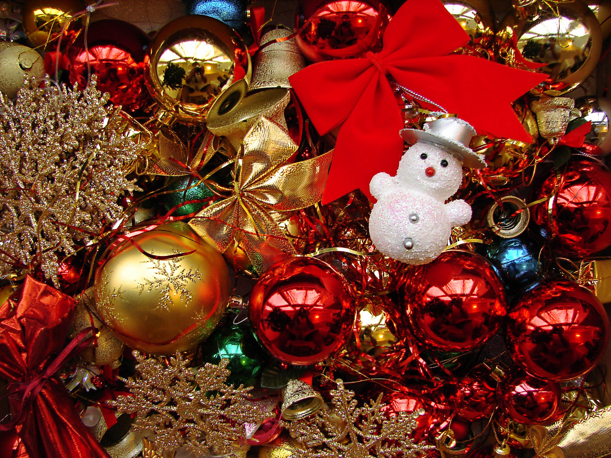 Ornamental Christmas decorations, Happy Newyear